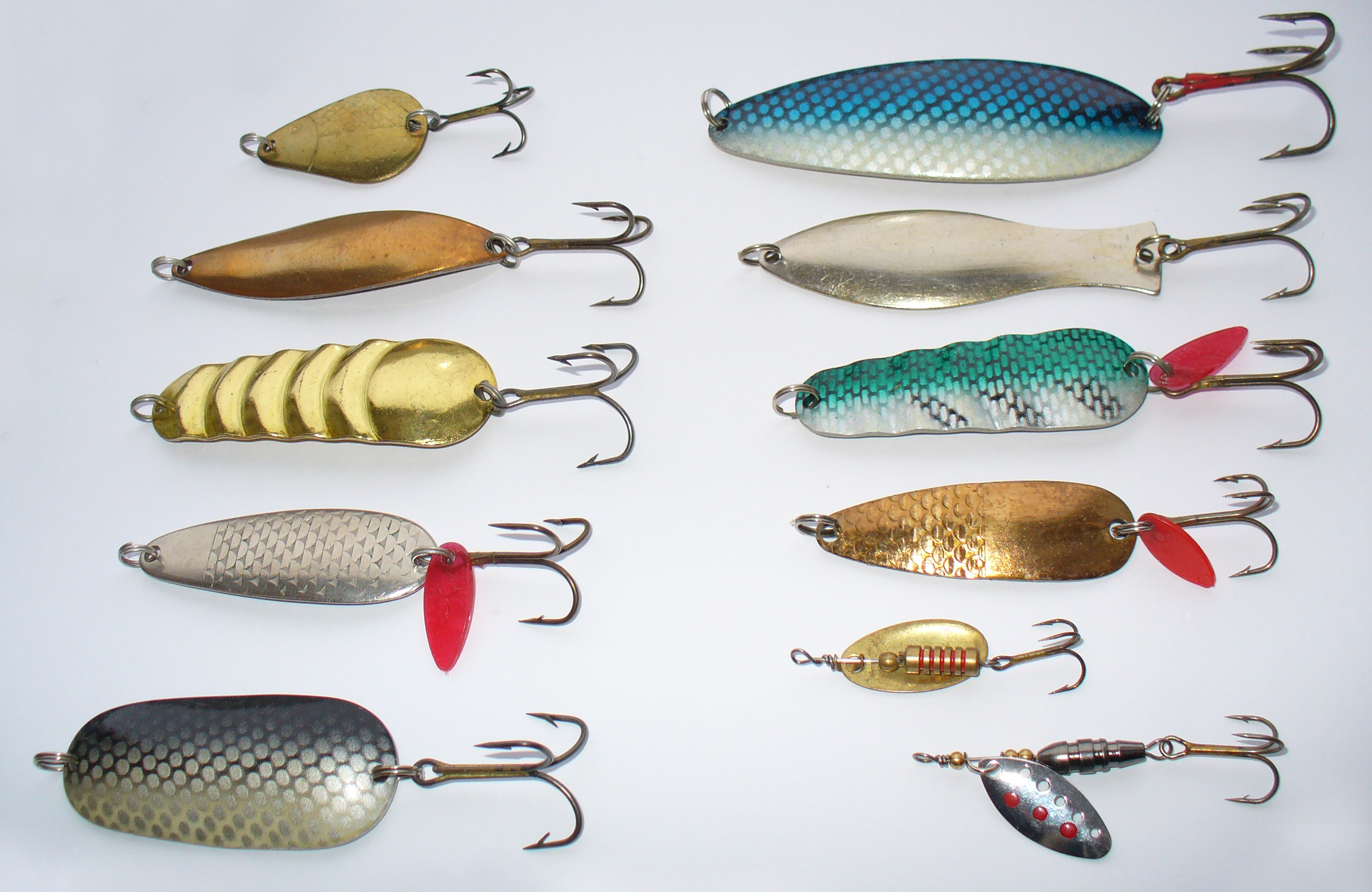 Spoon-bait, spinner. Fishing equipment